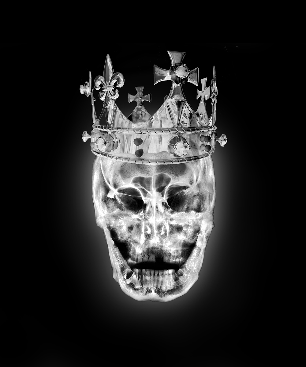 The King 2016 Based on x-ray of King Richard III Photographic print on aluminium Edition of 3, signed 120 x 100 cm